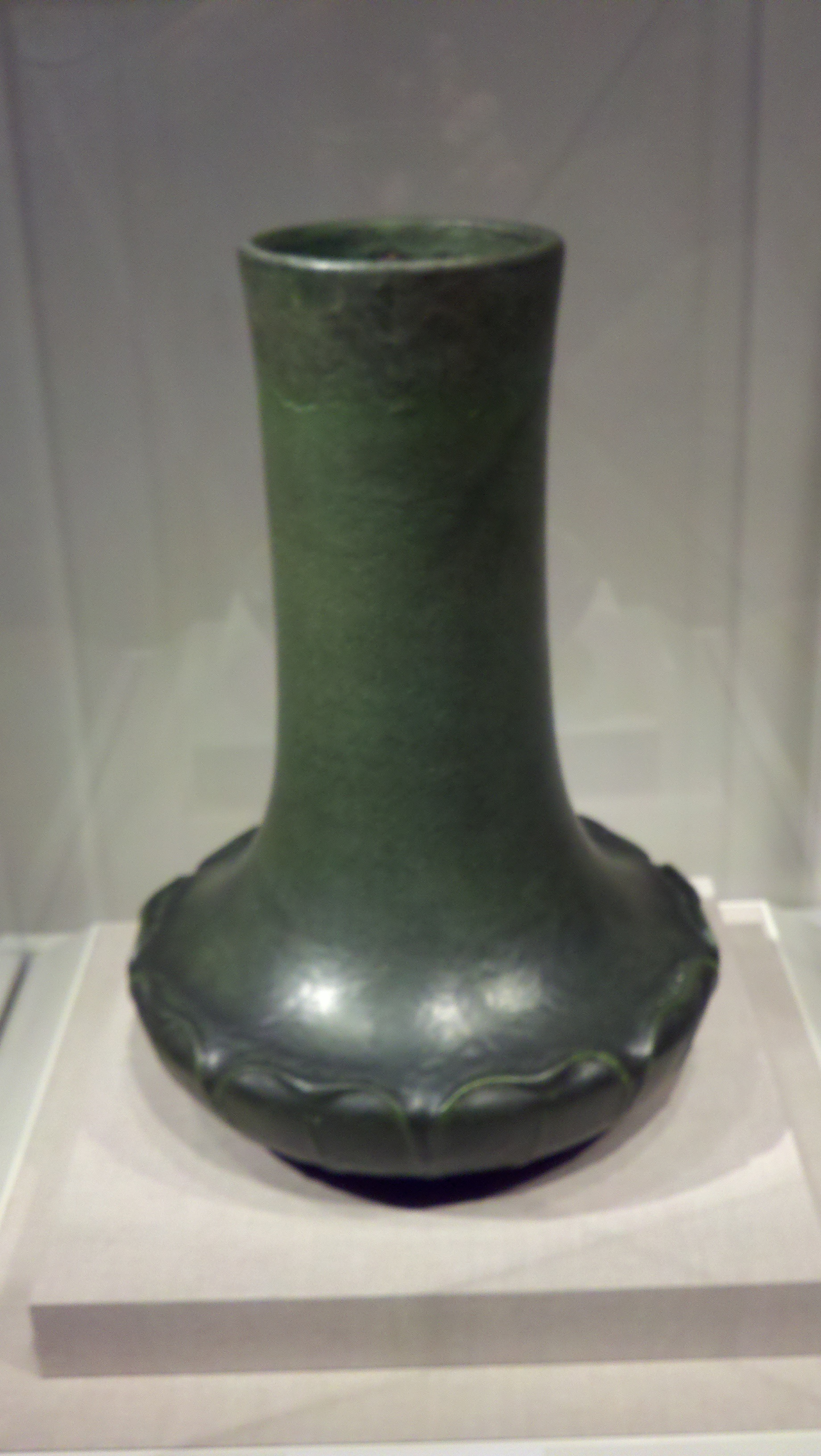 A 1906 vase by the Grueby Faience Pottery Company of Boston, on display at the DeYoung Museum in San Francisco